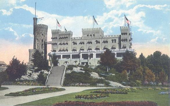 Casco Castle & Amusement Park, South Freeport, ME; from a 1906 postcard. Built in 1903, the hotel burned in 1914.